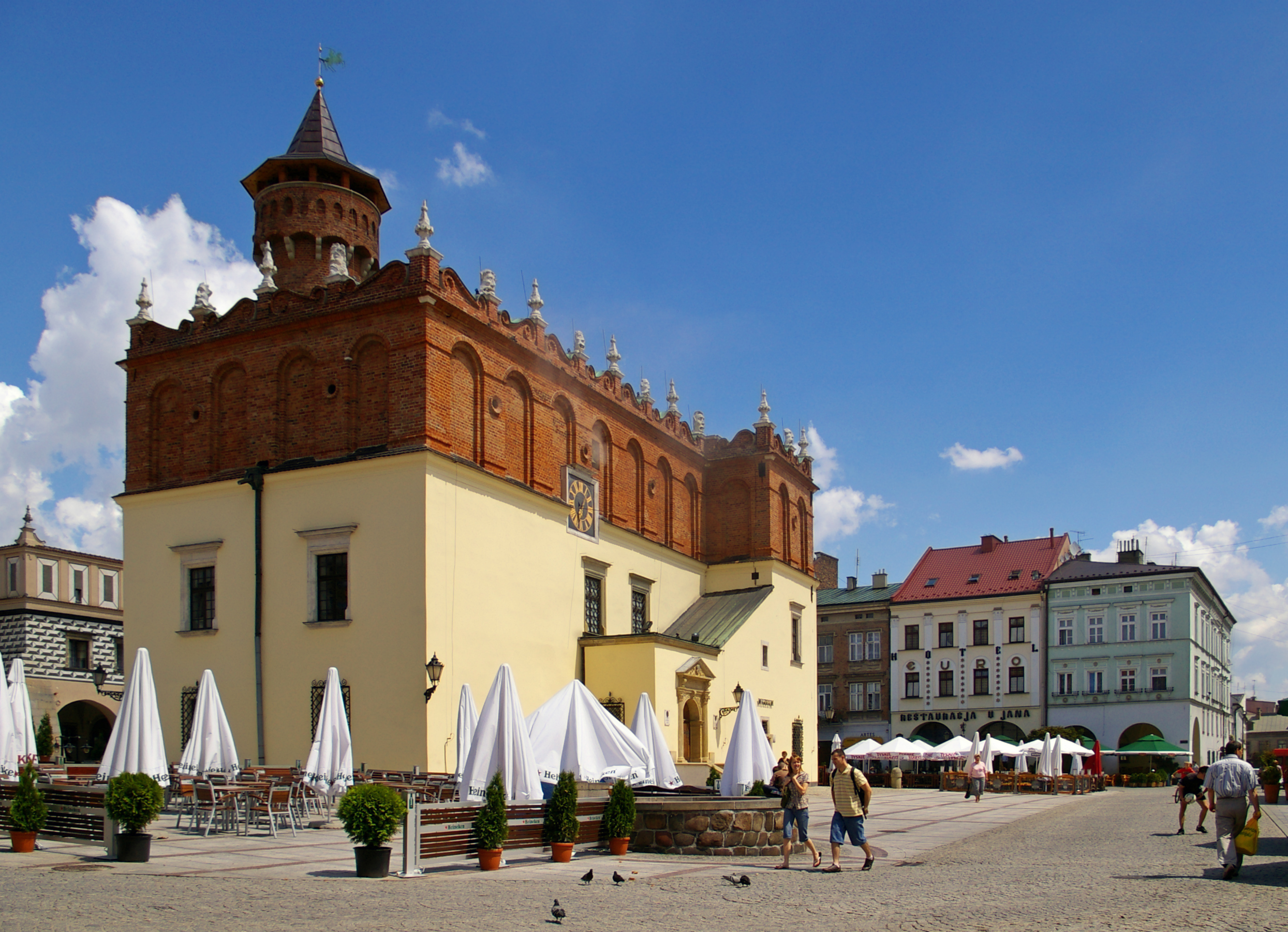 Market Square with the City Hall in Tarnów